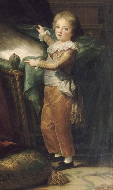 Dauphin Louis Joseph Xavier of France, second child and first son of Louis XVI of France and Marie Antoinette